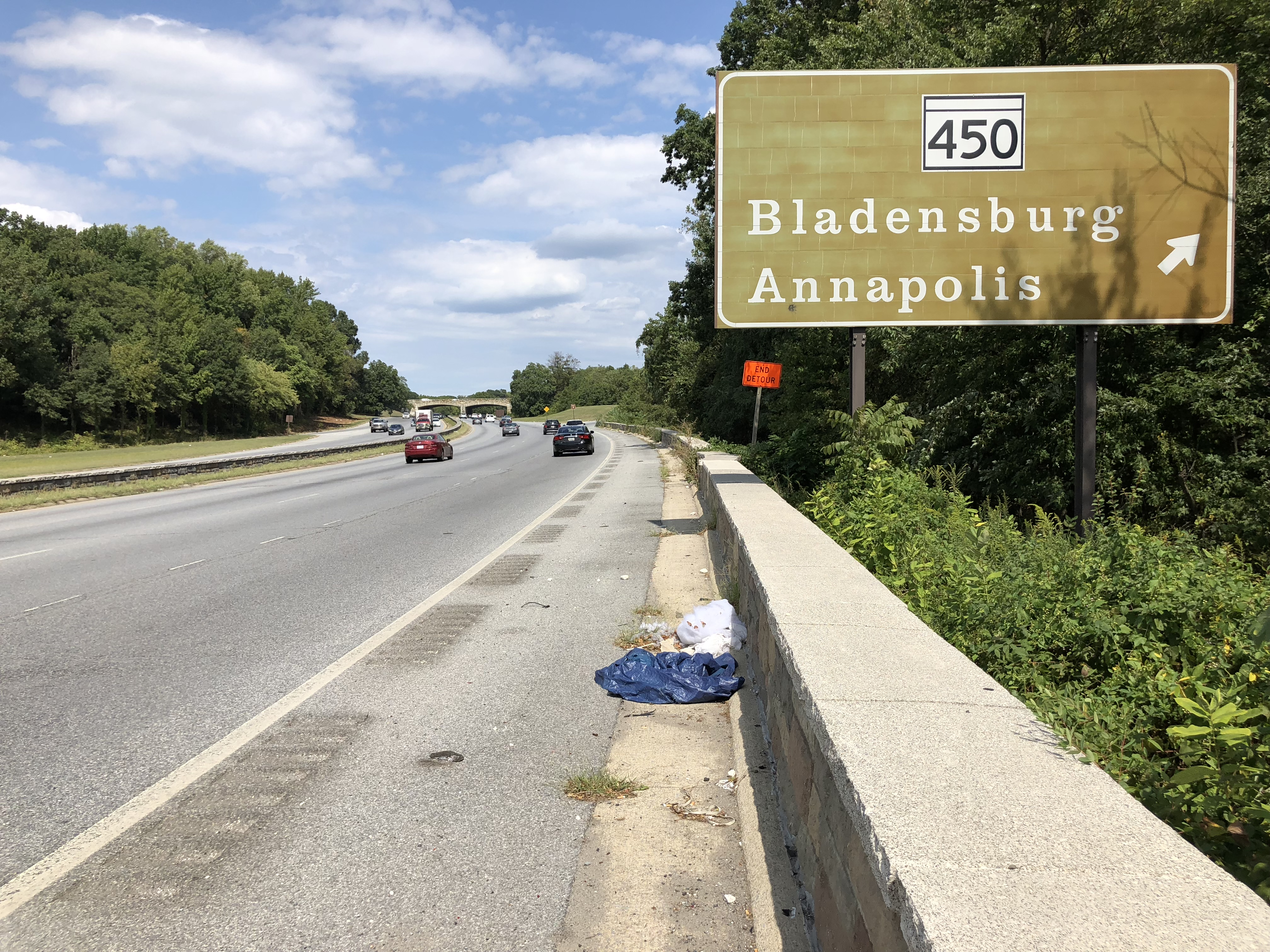 View south along Maryland State Route 295 (Baltimore-Washington Parkway) at the exit for Maryland State Route 450 (Bladensburg, Annapolis) in Landover, Prince George's County, Maryland